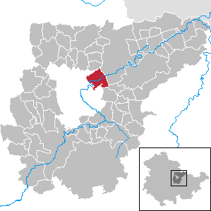 Kromsdorf in Thuringia - District Weimarer Land